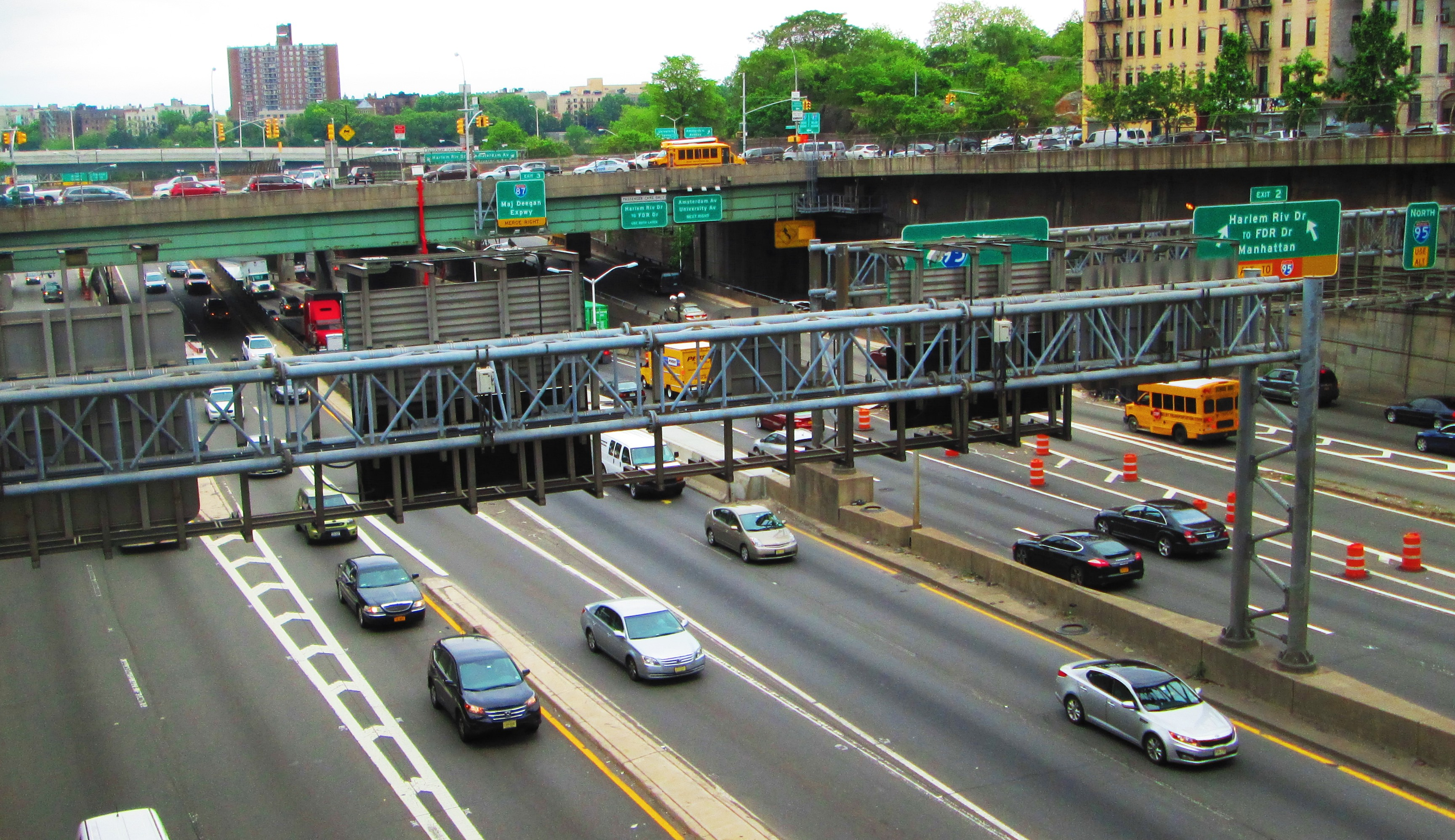 A view of the TransManhattan Expressway (Interstate 95) looking east from Audubon Avenue and West 179th Street in the Washington Heights neighborhood of Manhattan, New York City.